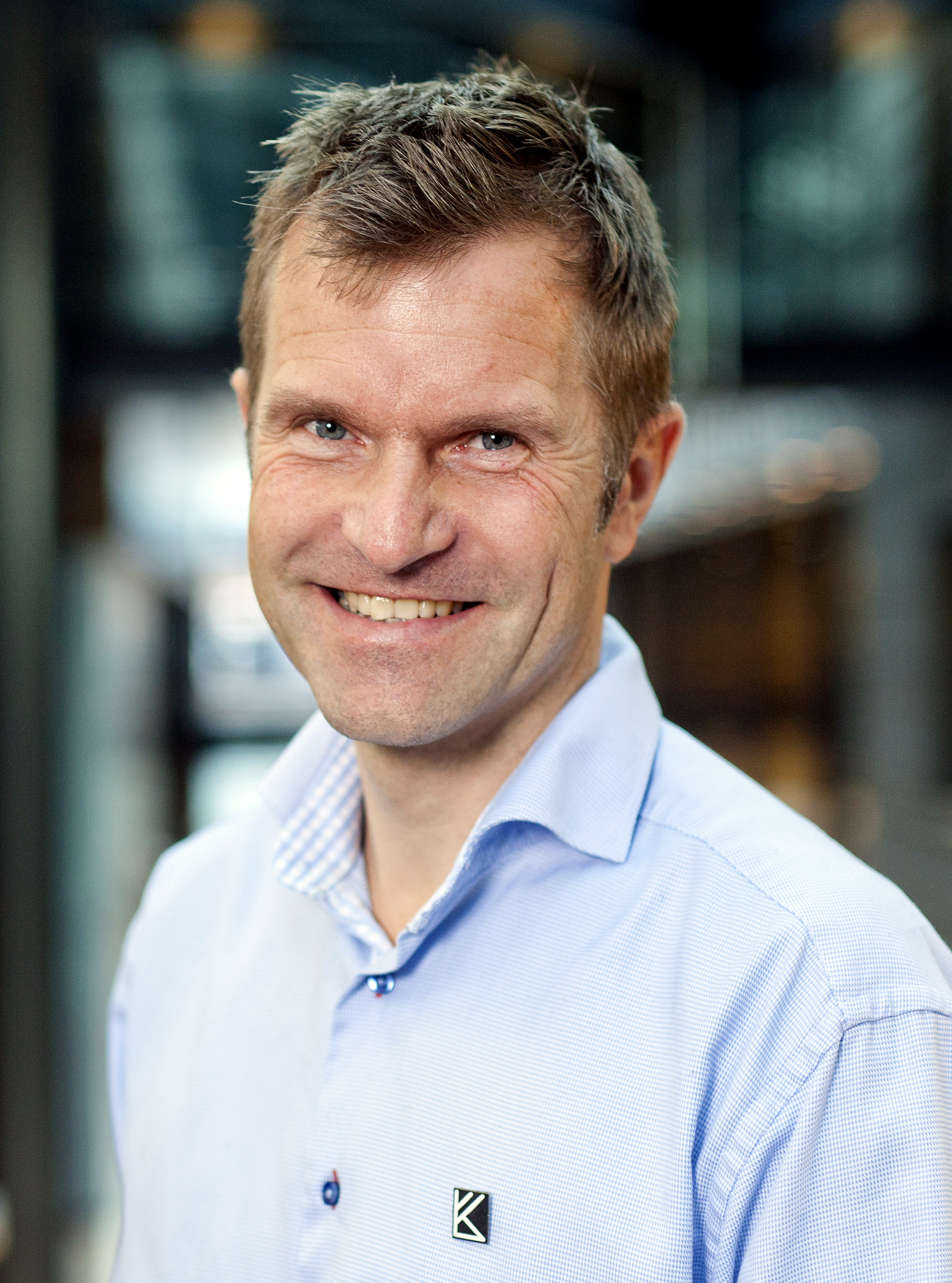 Former Norwegian orienteering athlete, Bjørnar Valstad